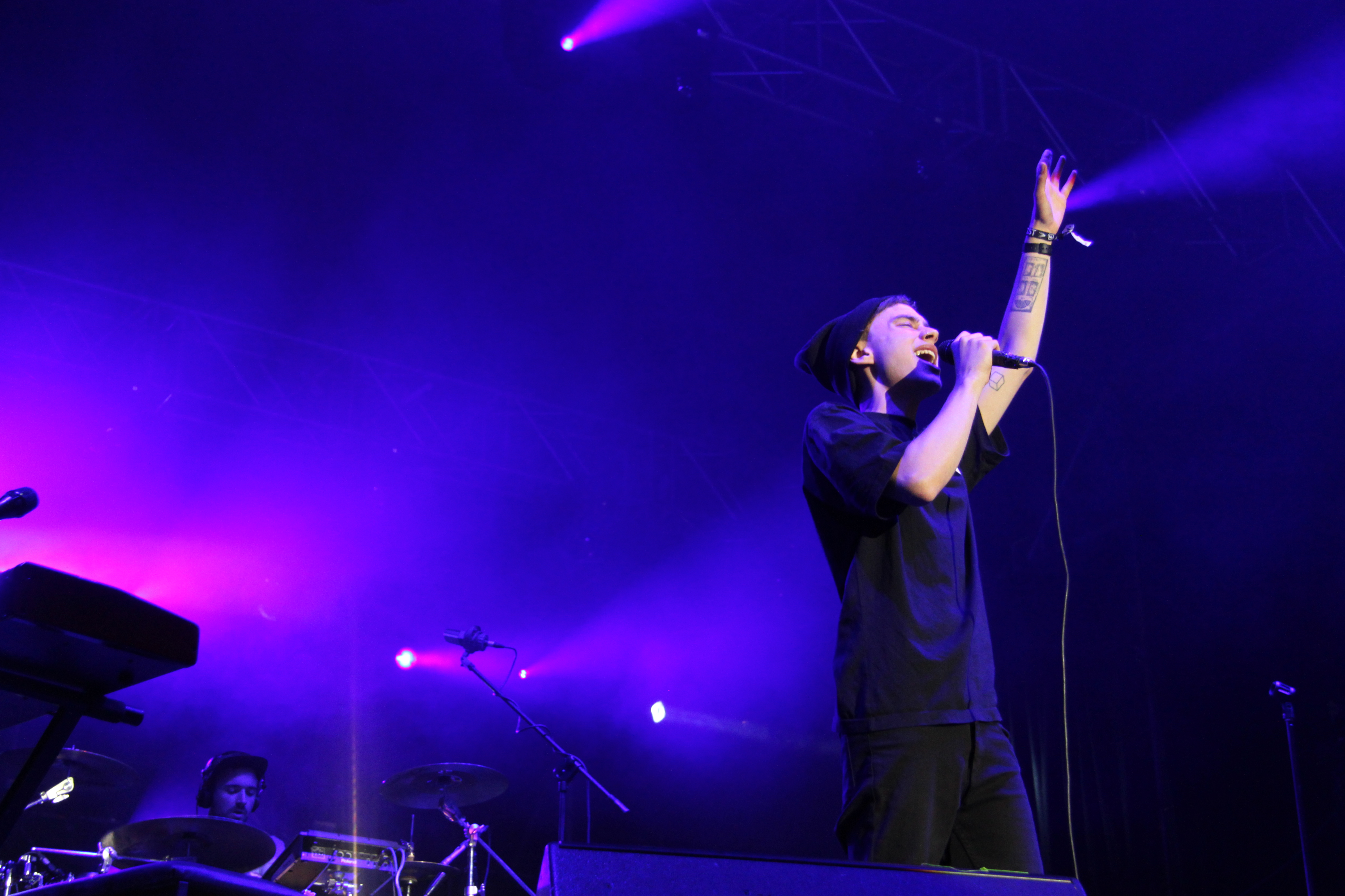 Years & Years during Tauron Nowa Muzyka 2014 festival.